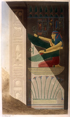 Names of Rameses III; winged Ma'at kneeling over lilies of Upper Egypt. Scene from tomb of Ramses III. (KV11)